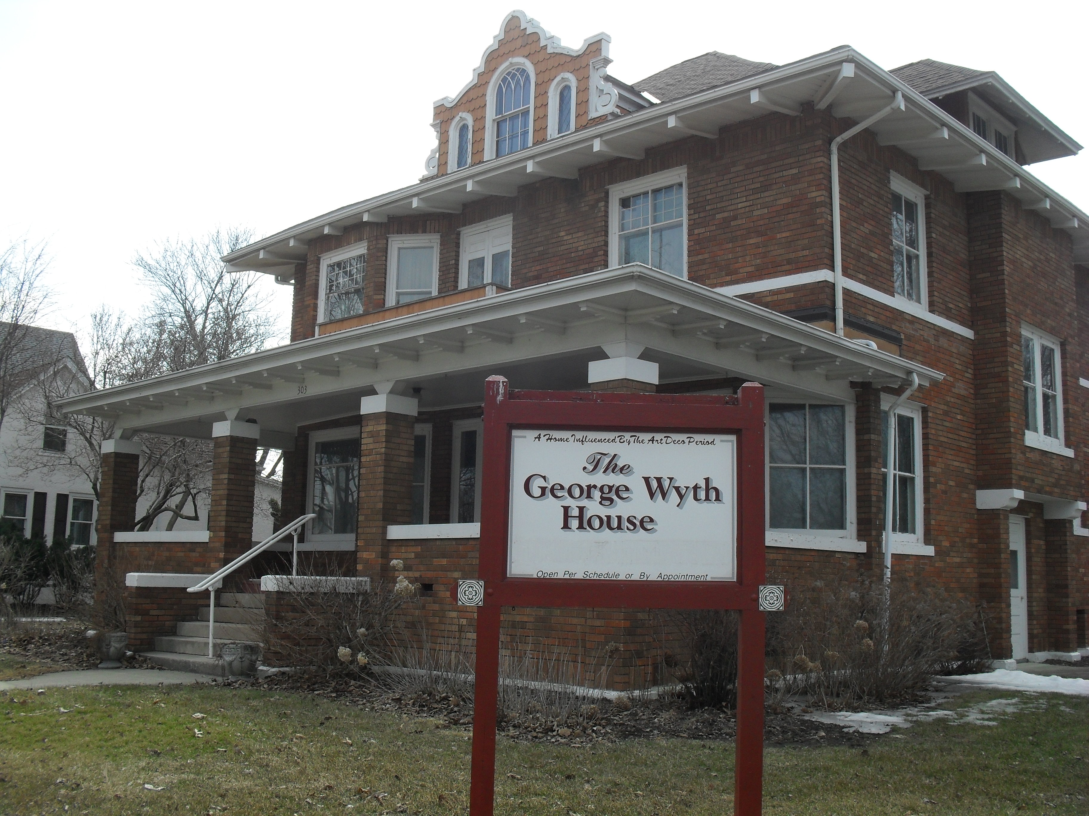 Photo of a historic home dating back to 1907.